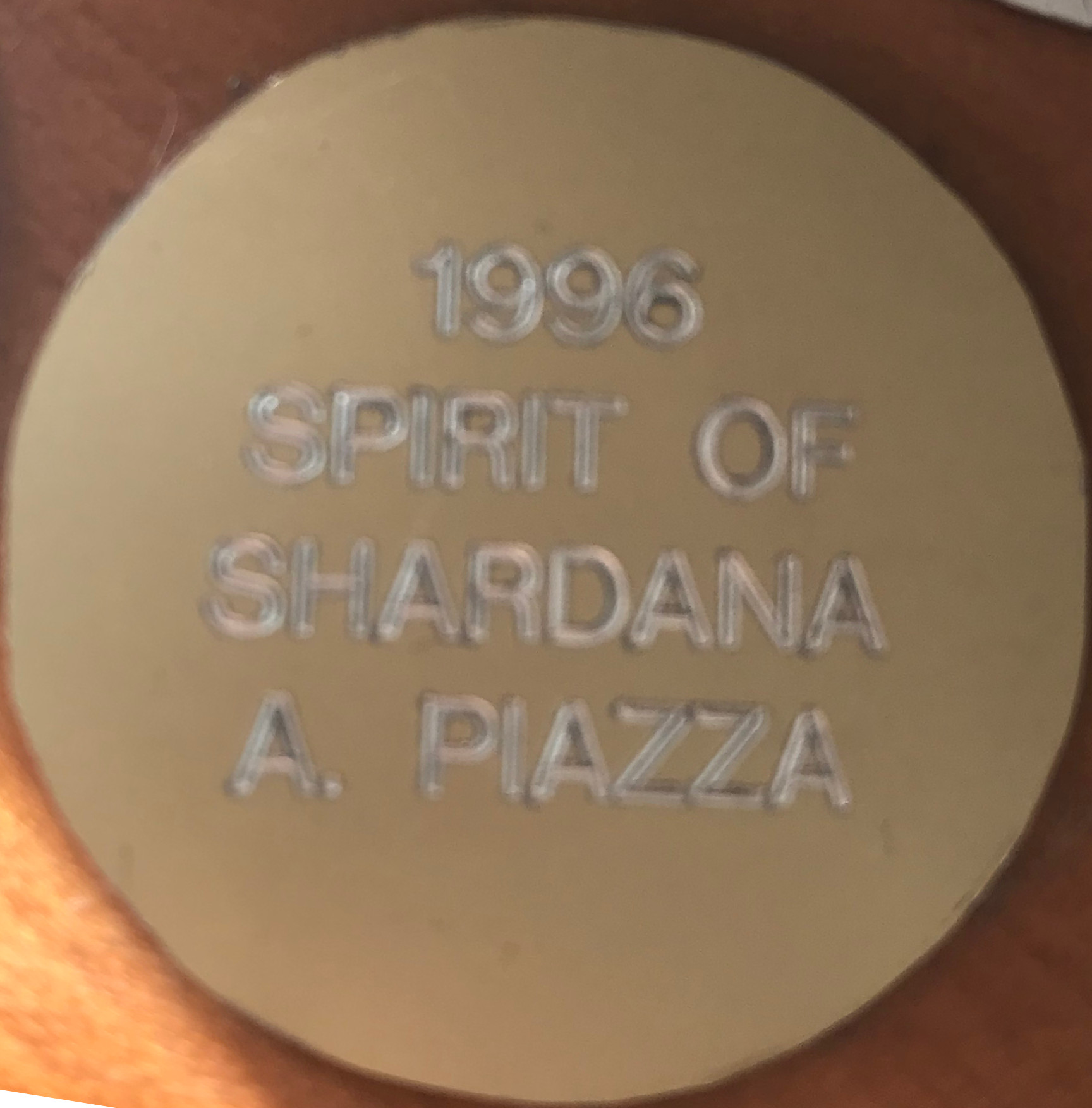 Patch on the Trophy